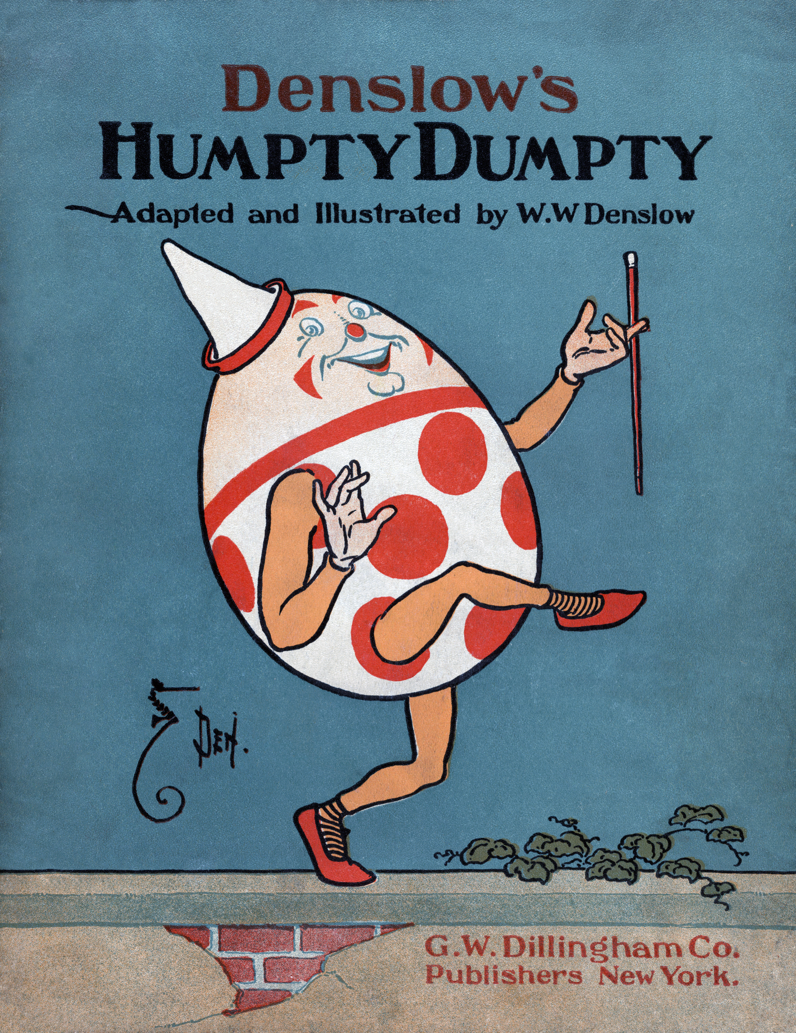 Cover of a 1904 adaptation of Humpty Dumpty by William Wallace Denslow.